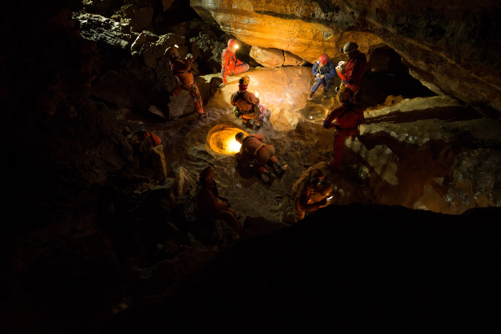 Astronauts looking for microbiological samples in cave.